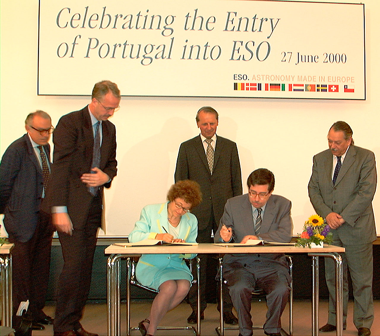 ESO Director General, Catherine Cesarsky, and the Portuguese Minister of Science and Technology, Mariano Gago signing the Portugal-ESO Agreement.